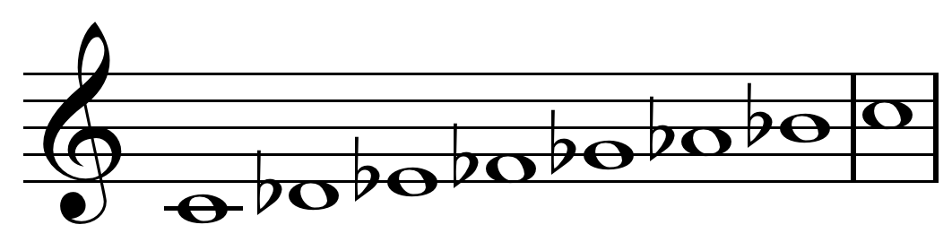 C altered scale with flats.